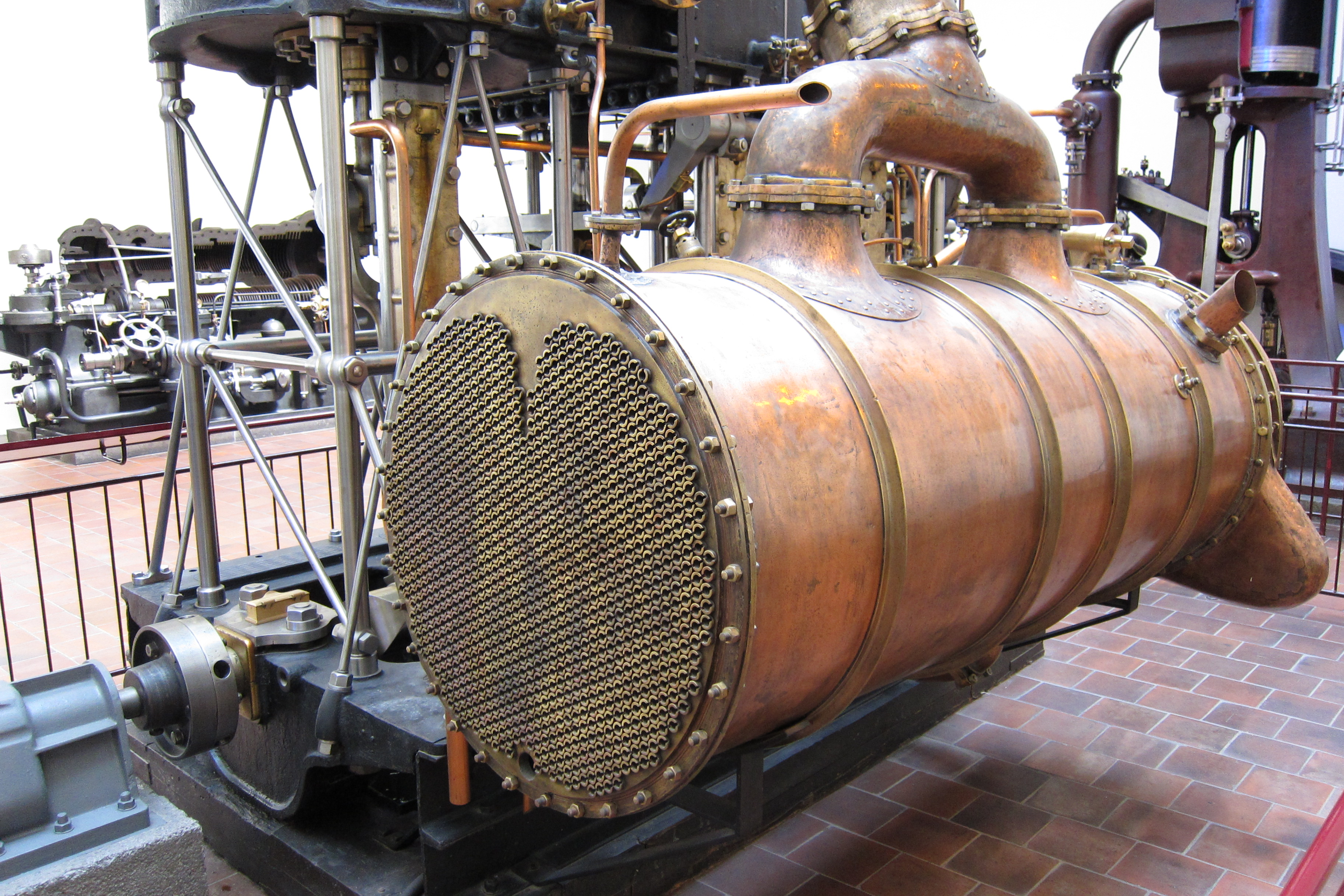 The condenser of a marine steam engine displayed in the Deutsches Museum